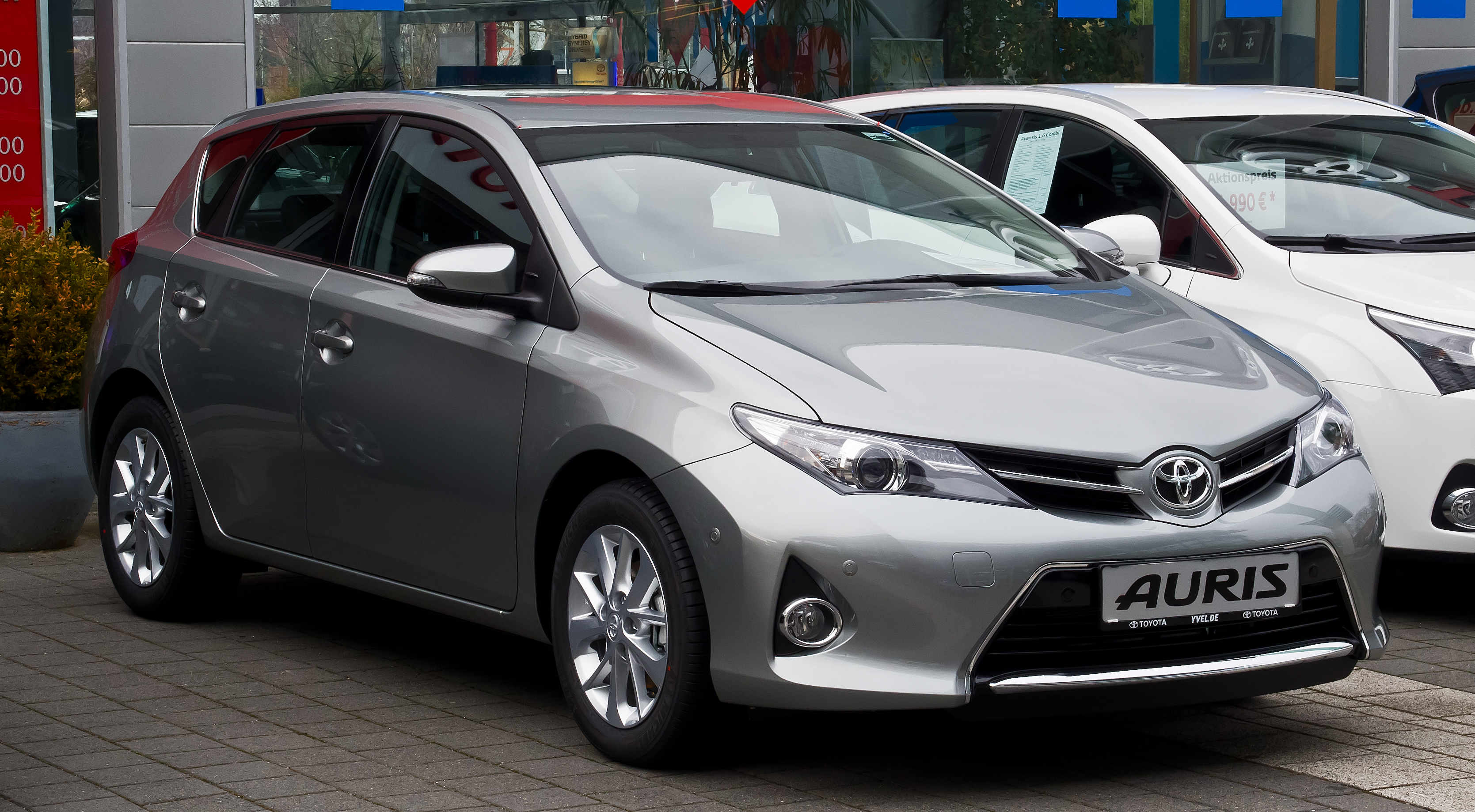 Toyota Auris 1.33 Dual-VVT-i Start Edition (II)